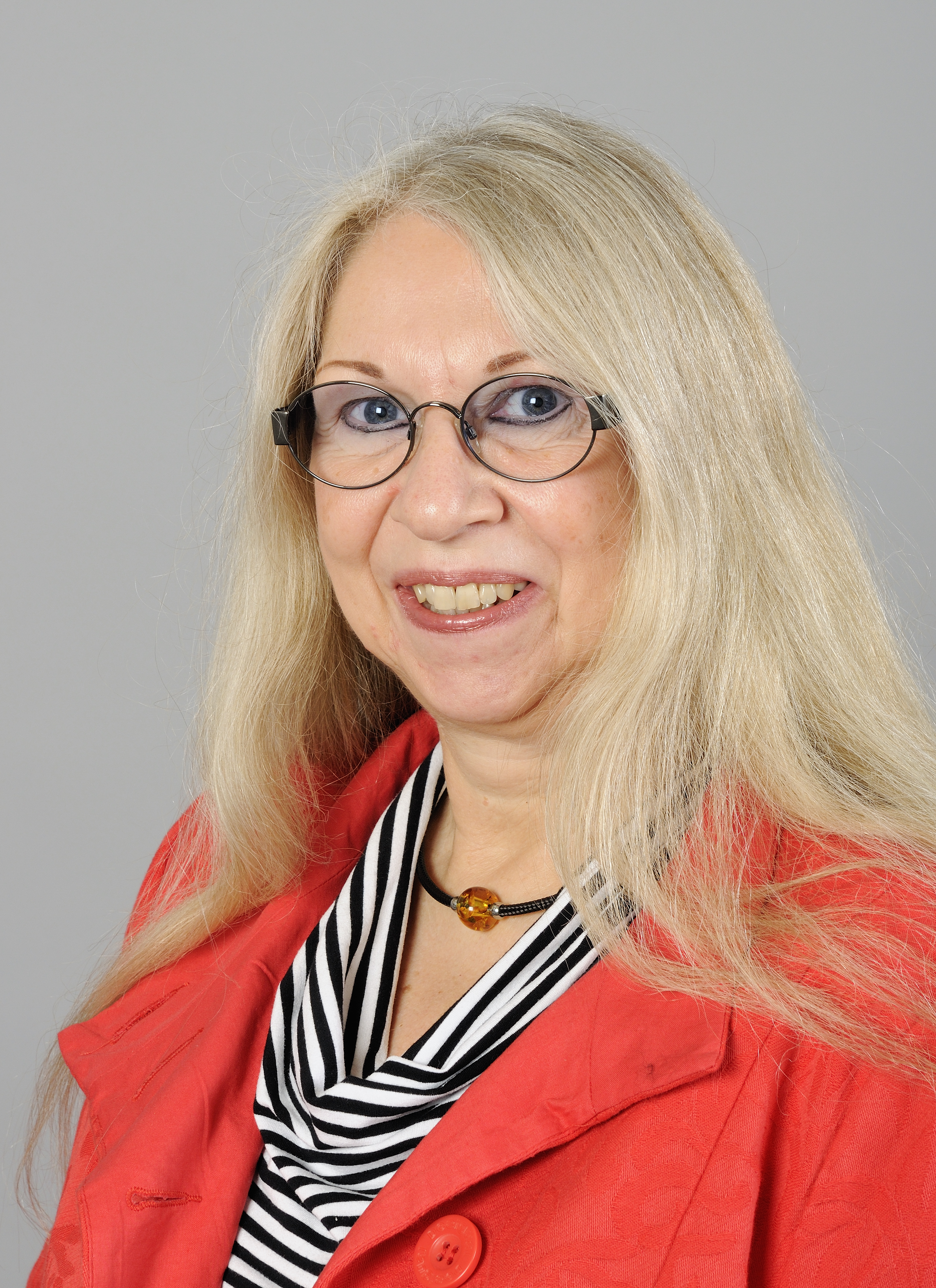 Irene Köhne, Berlin politician (SPD) and member of the Abgeordnetenhaus of Berlin (as of 2013).